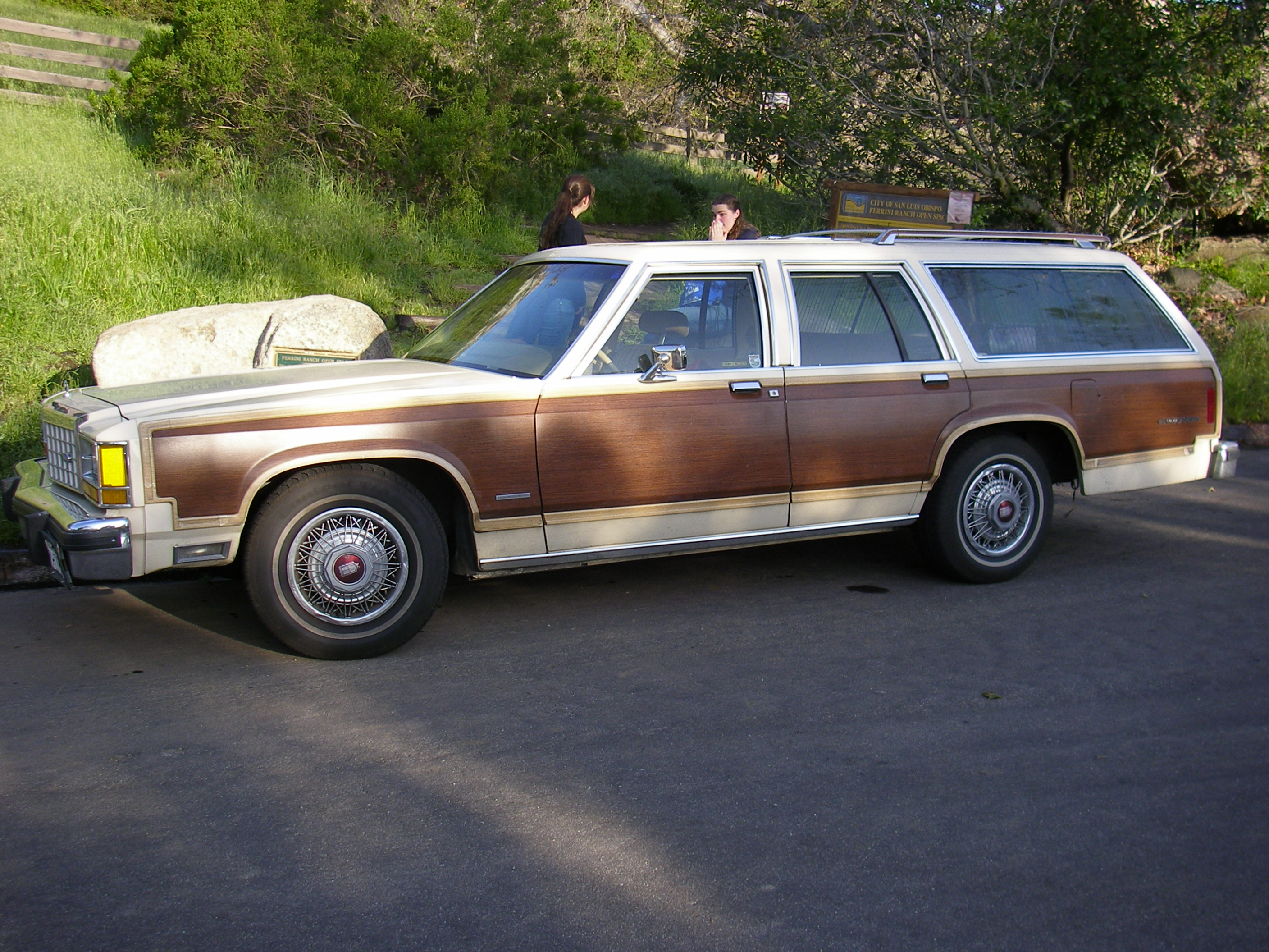 1983 Ford Country Squire